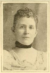 Mrs James Albert Gary